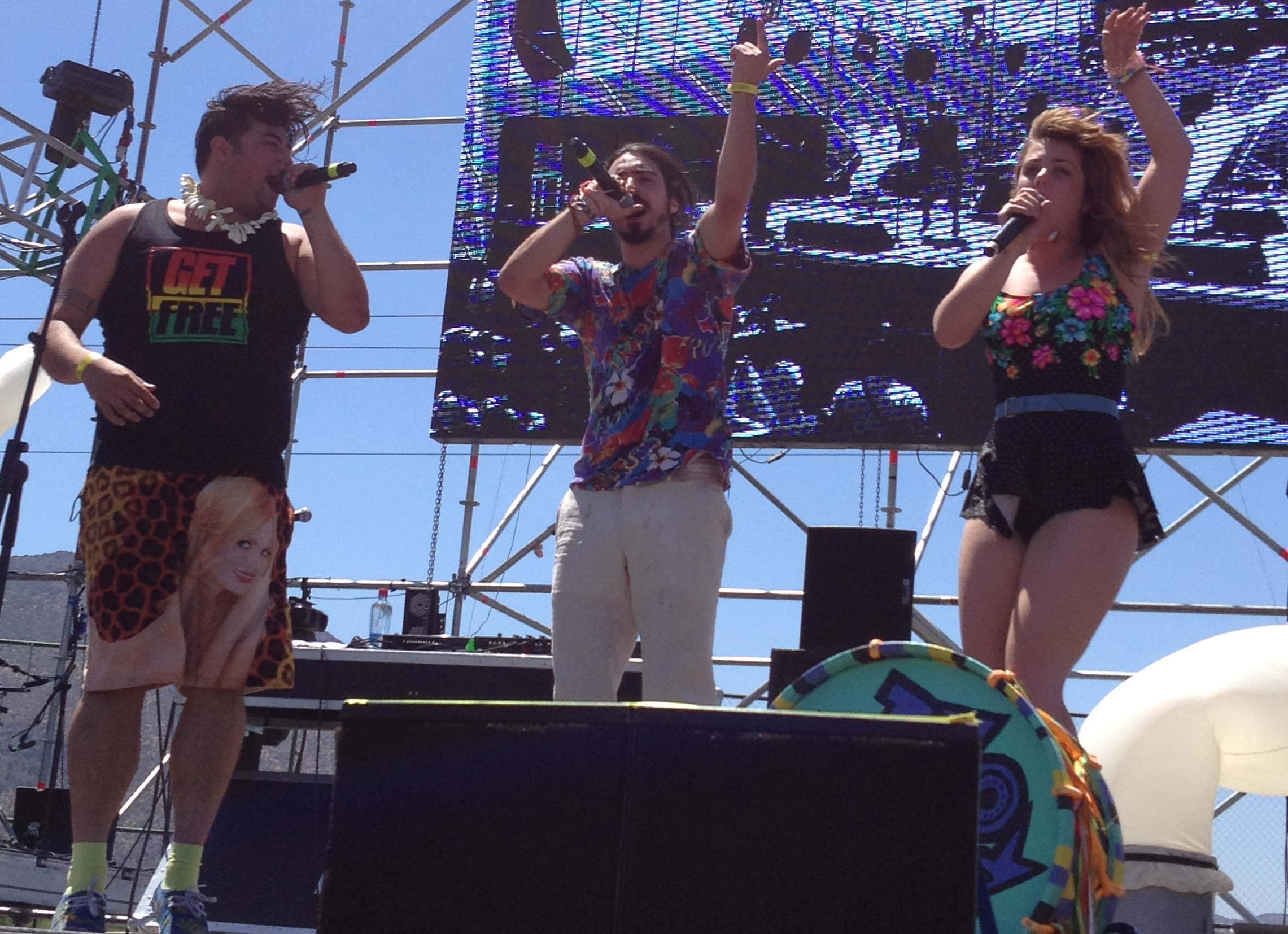 Performing at Primavera Fauna, Santiago, Chile.